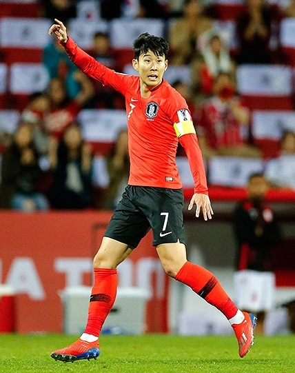 South Korea & Bahrain Round of 16, 2019 AFC Asian Cup